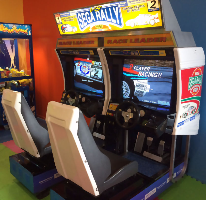 Sega Rally twin racer on location